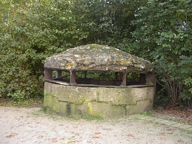 British World War 1 Pillbox in Ypres (Belgium).